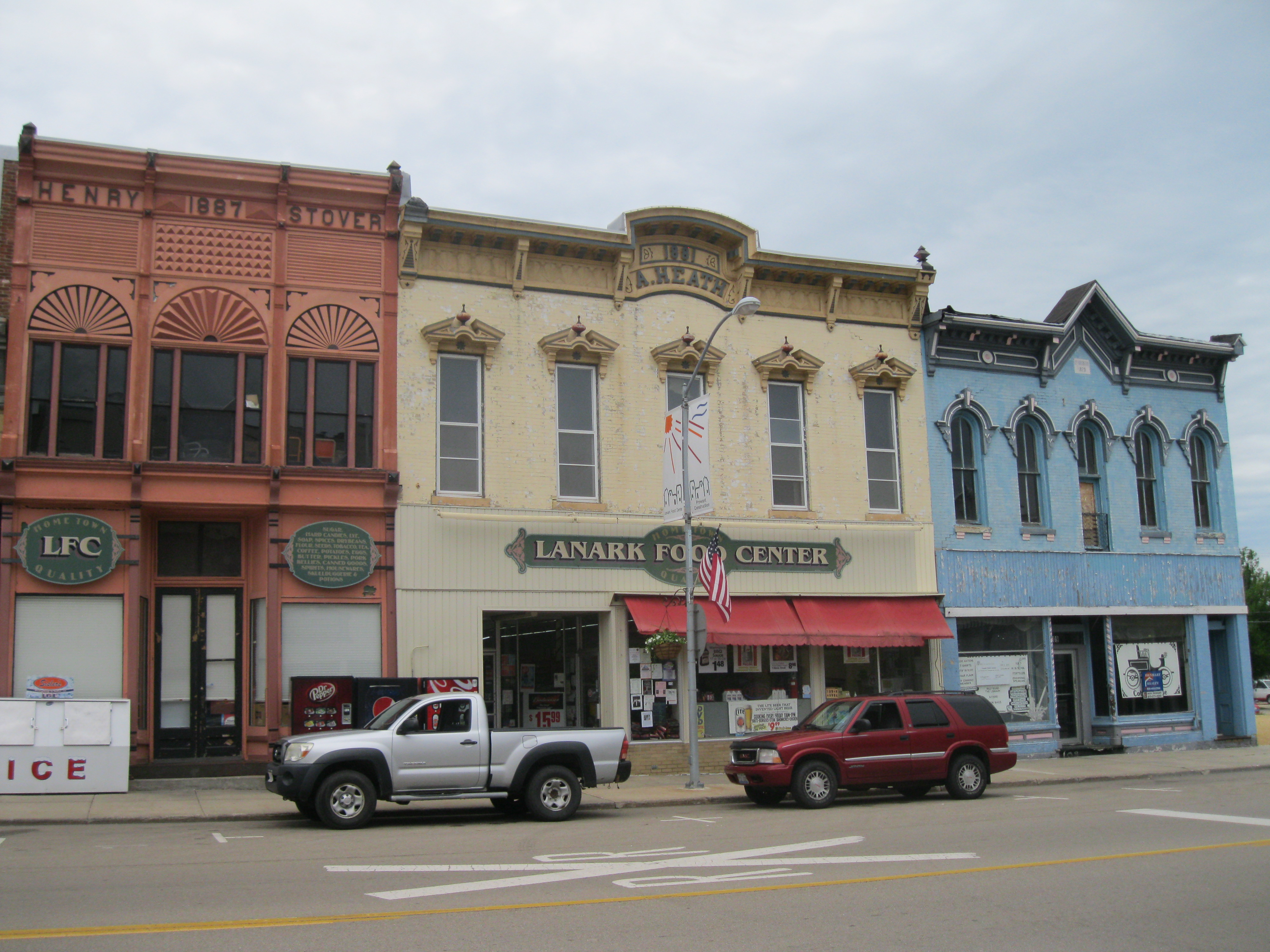 Historic storefronts in Lanark, Illinois.